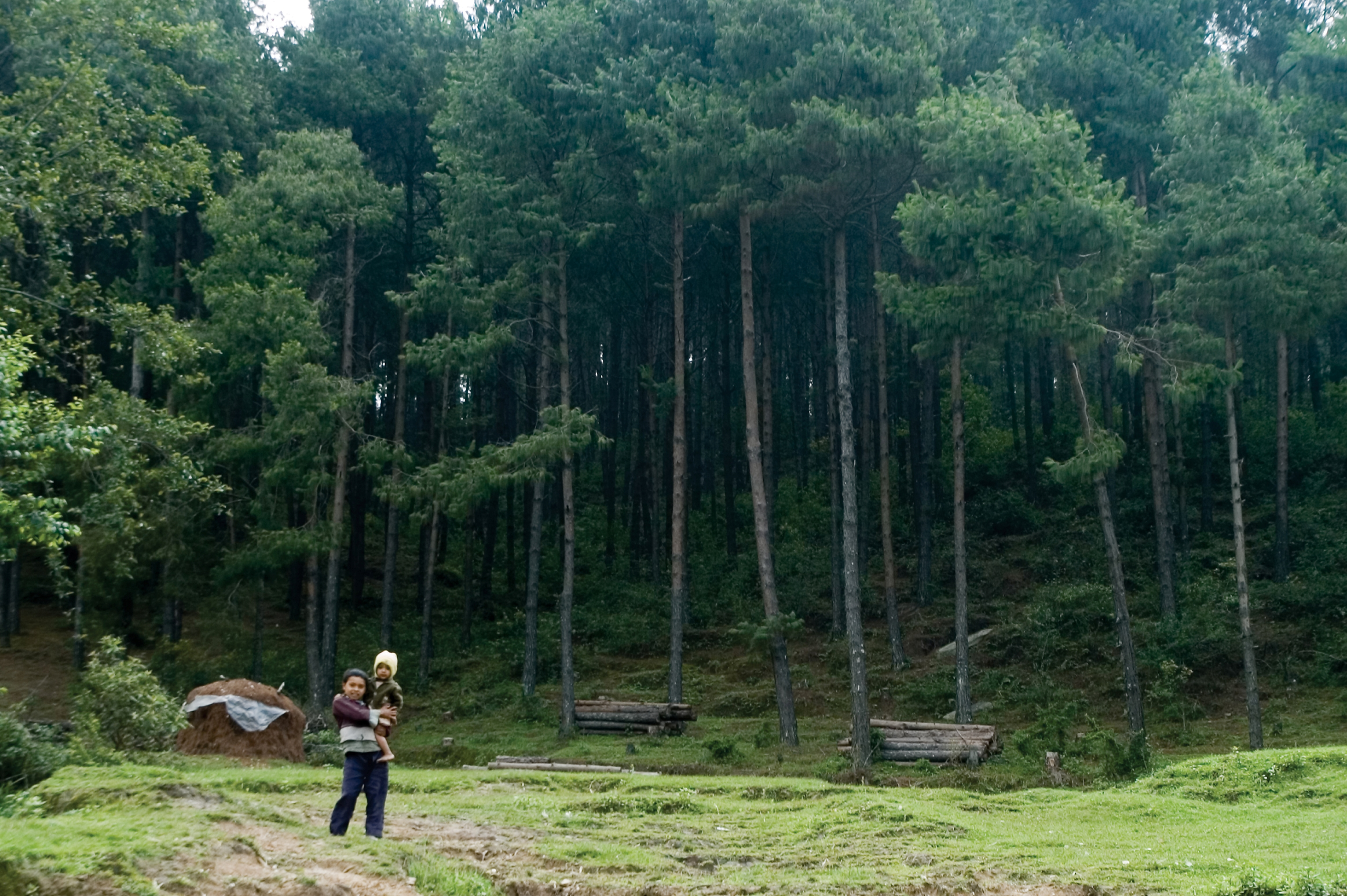 Nepal, 2006. Photo: AusAID